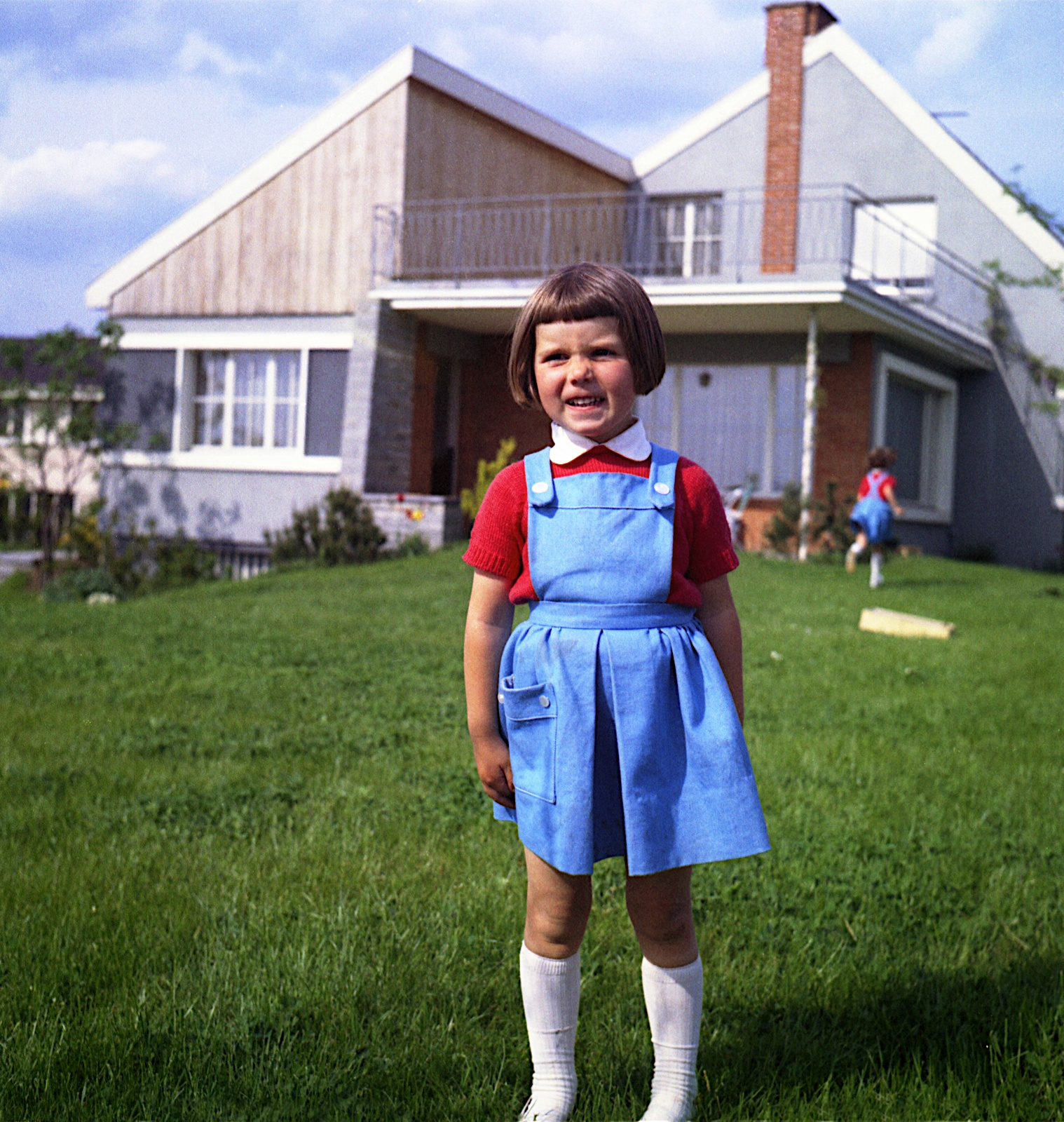 A girl wearing a blue jumper dress.